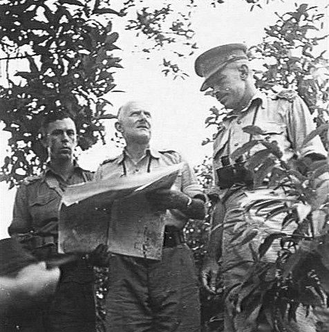 BALIKPAPAN, BORNEO, 4 JULY 1945. MAJOR GENERAL E J MILFORD, GENERAL OFFICER COMMANDING 7 DIVISION (2), BRIGADIER K W EATHER, COMMANDER 25 INFANTRY BRIGADE (3) AND LIEUTENANT R M LYALL, AIDE DE CAMP TO MAJ-GEN MILFORD (1), INSPECTING JAPANESE STRONGPOINTS FROM THE FORWARD OBSERVATION POST OF 2/31 INFANTRY BATTALION, DURING THE OBOE 2 OPERATION.